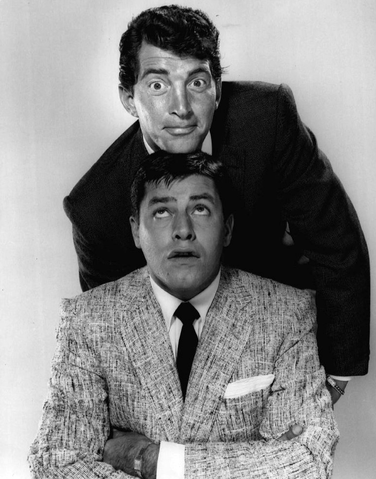 Photo of Dean Martin and Jerry Lewis from the television program Colgate Comedy Hour.